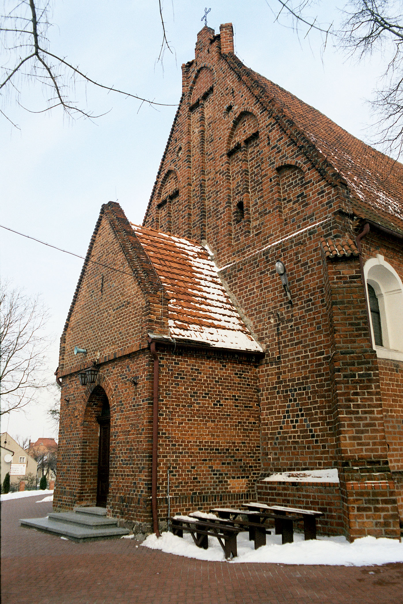 Mogilno, Poland, St. Jacob's church, west facade